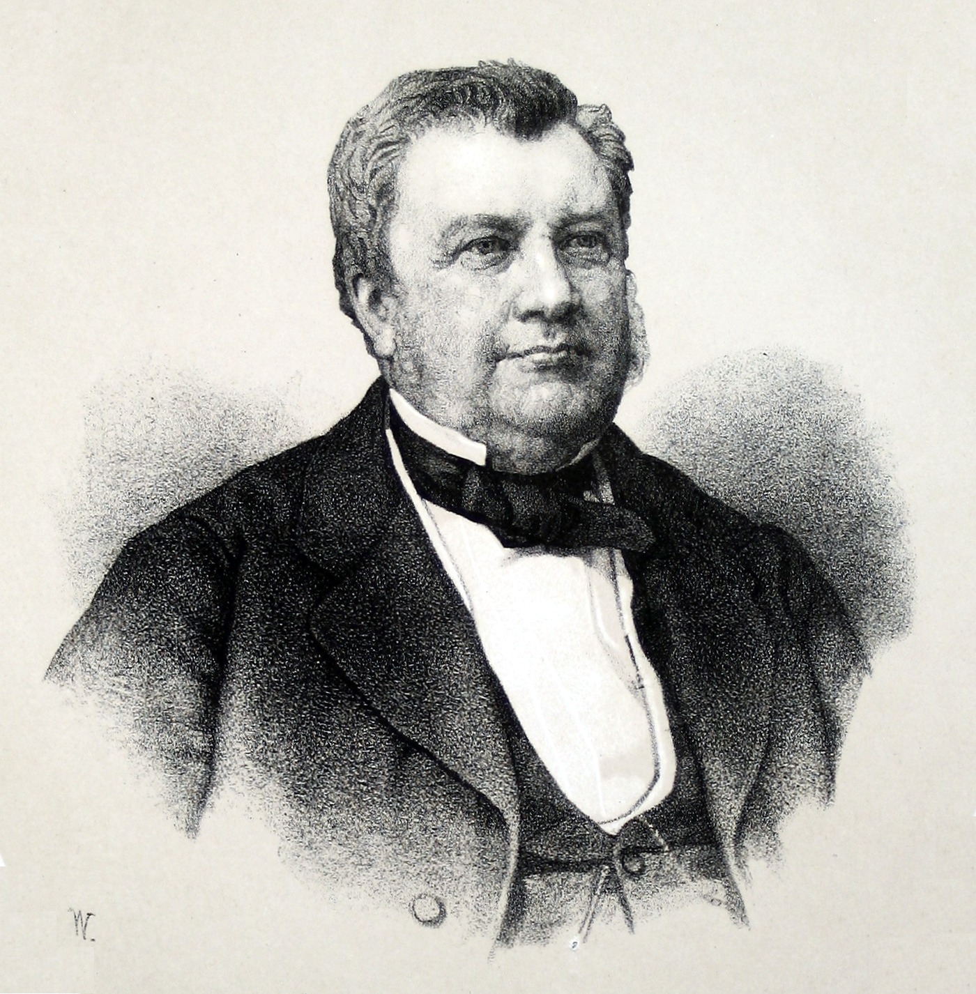 Portrait of Lars Gustaf Celsing from the book "Svenska industriens män" (1875)